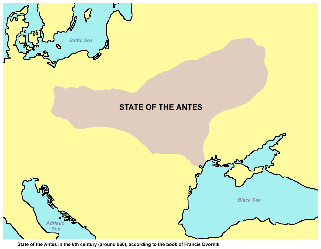 Map showing the State of the Antes in the 6th century (around 560), according to the book of Francis Dvornik.